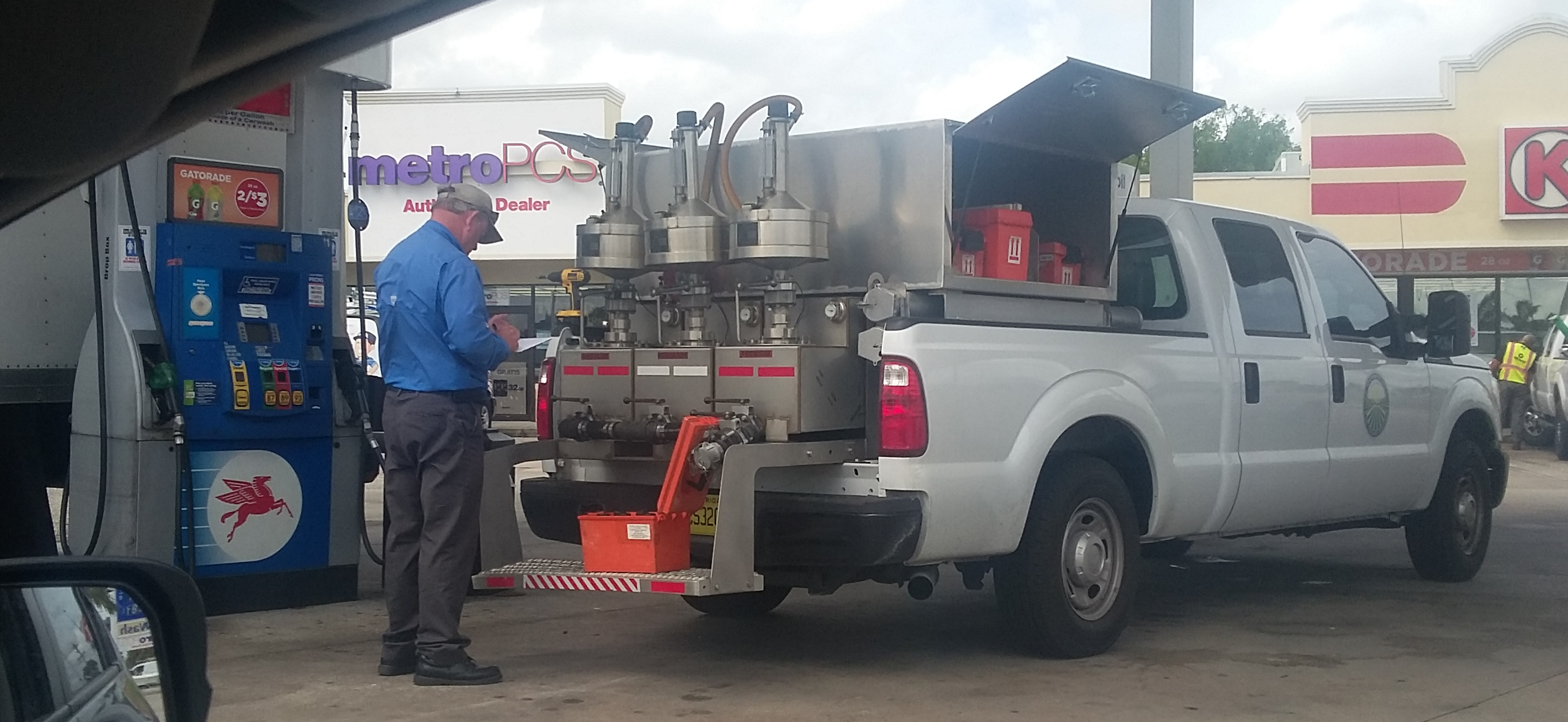 A state inspector visits a Mobil station in Port Charlotte, Florida to check the accuracy of the pumps and the quality of the fuel being sold.